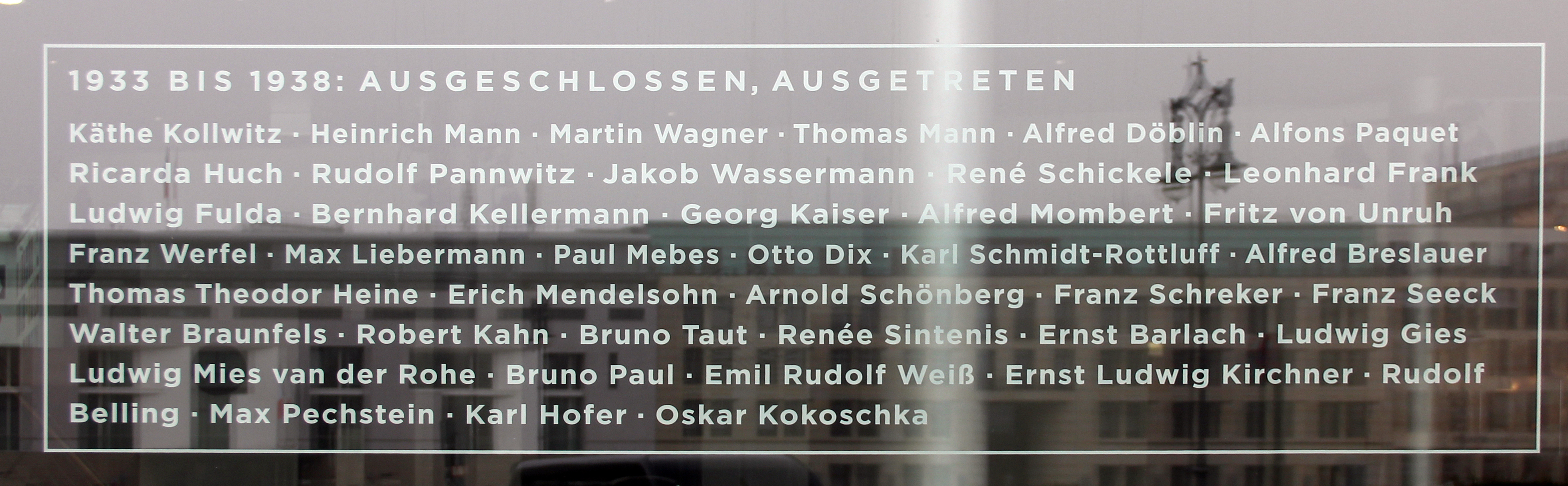 Memorial plaque, Akademie der Künste, Pariser Platz 4, Berlin-Mitte, Germany